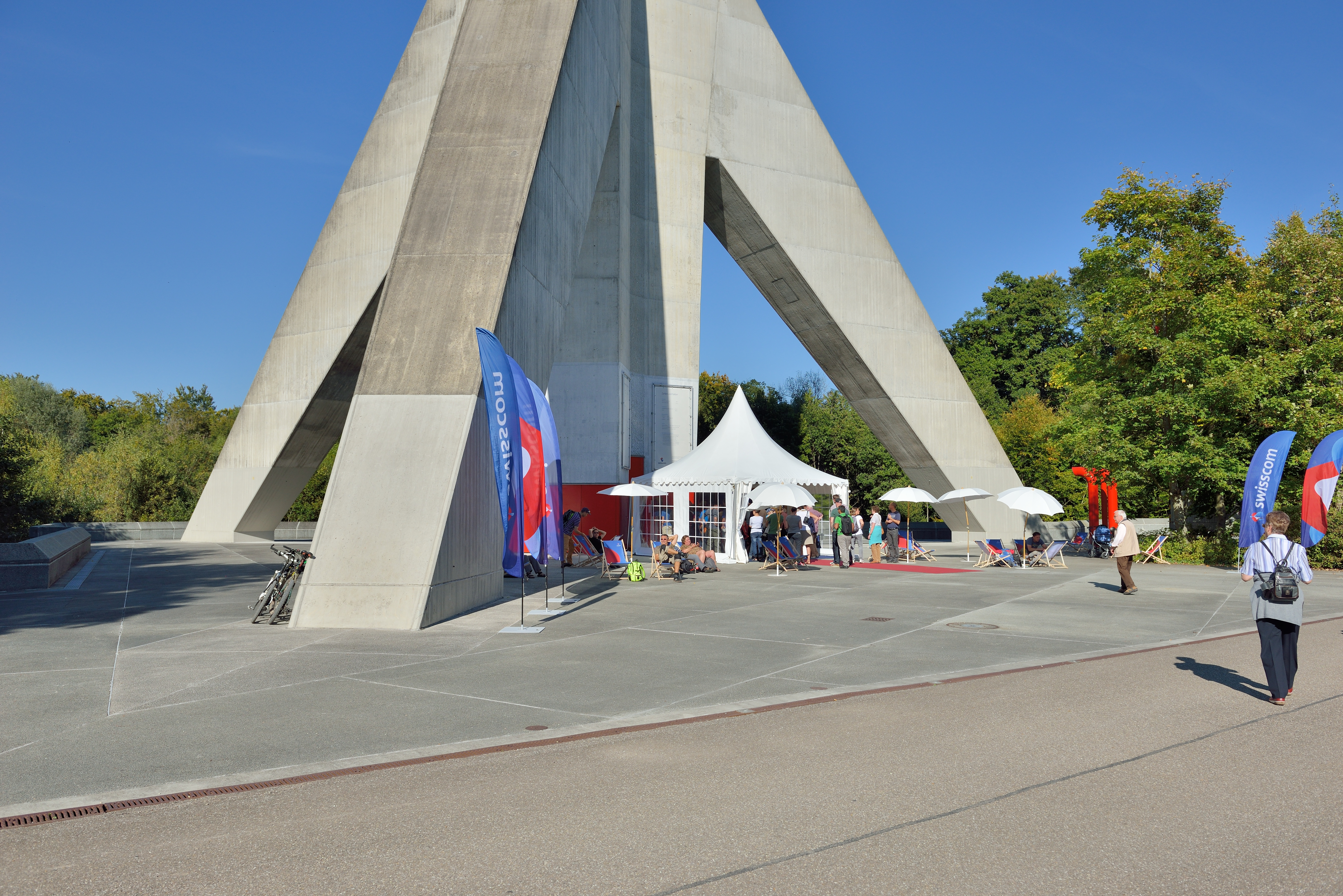 TV Tower St. Chrischona